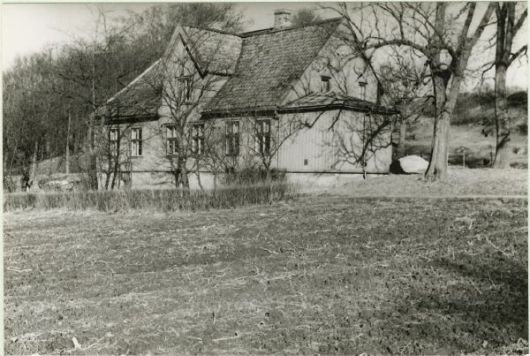 Lundens mansion in Gothenburg Municipality.